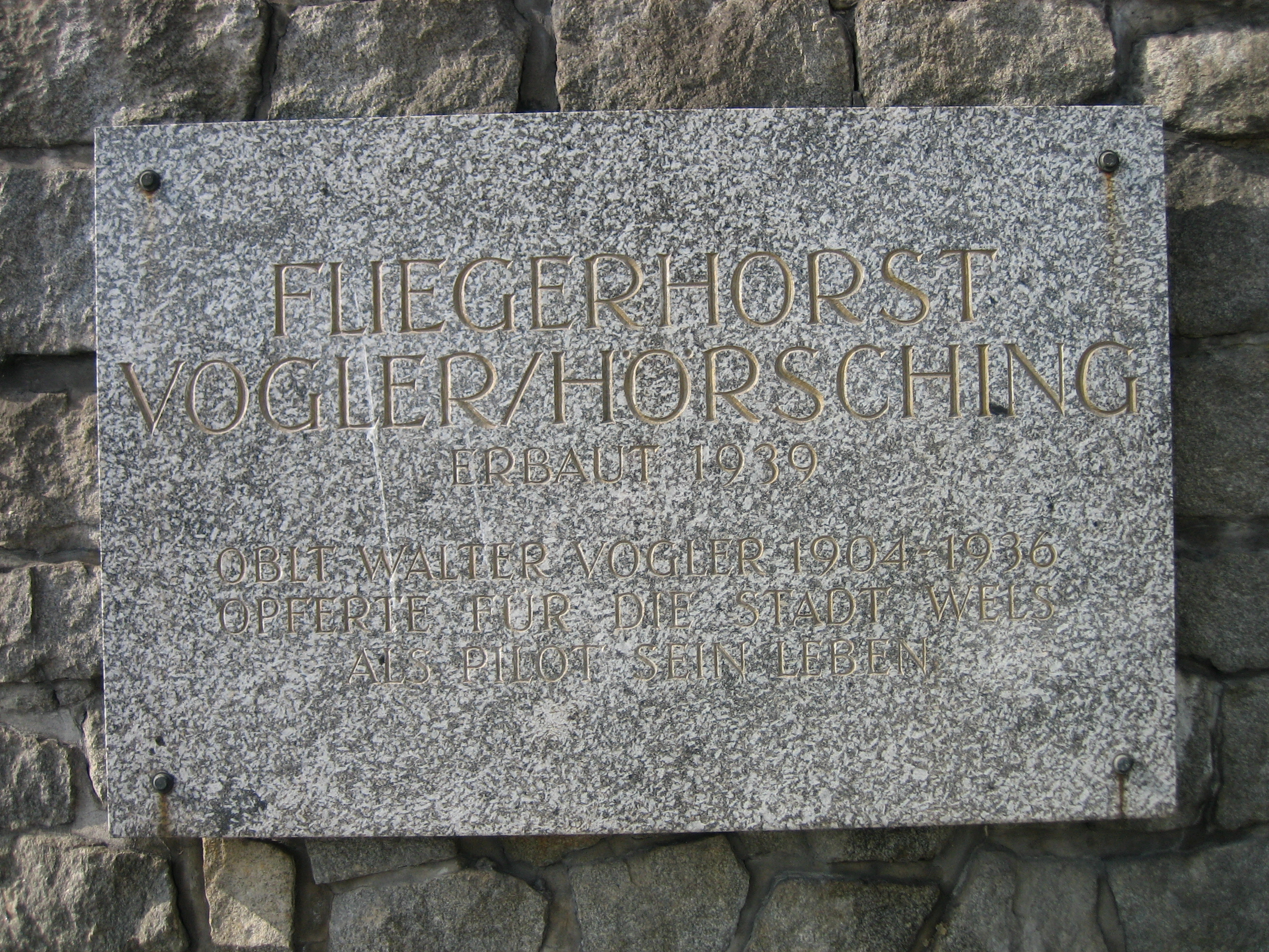 The plaque at the main gate of Fliegerhorst Vogler, Hörsching, Austria